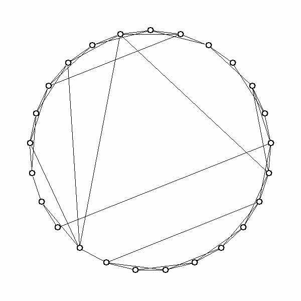 Watts-Strogatz model small-world graph